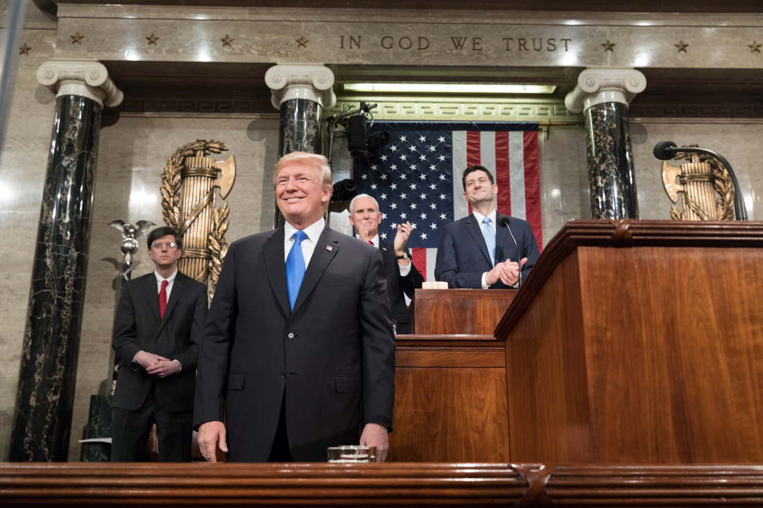 State of the Union 2018 (Official White House Photo by Shealah Craighead)